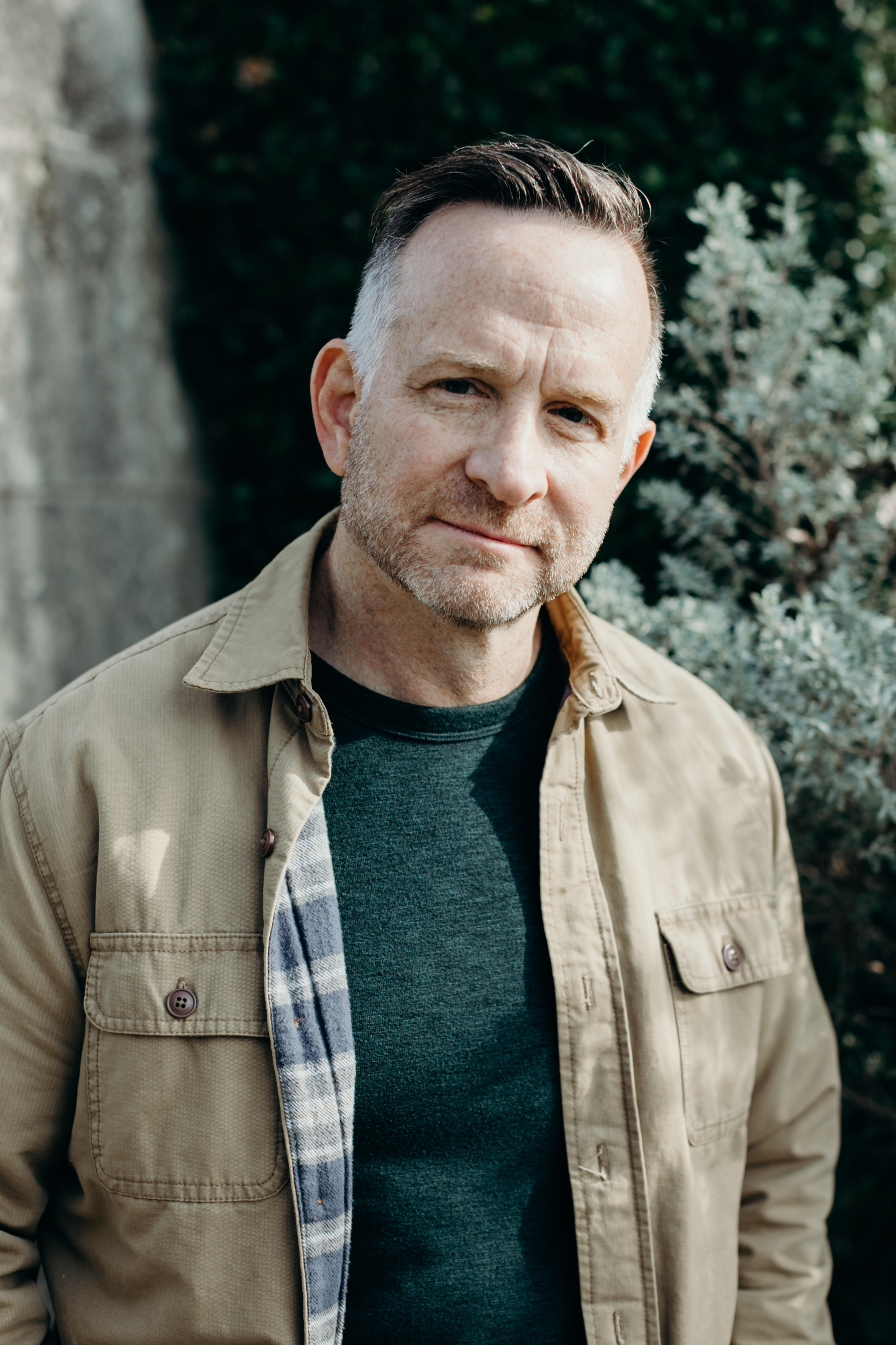 Headshot of Doyle Glass, sculptor and historian.